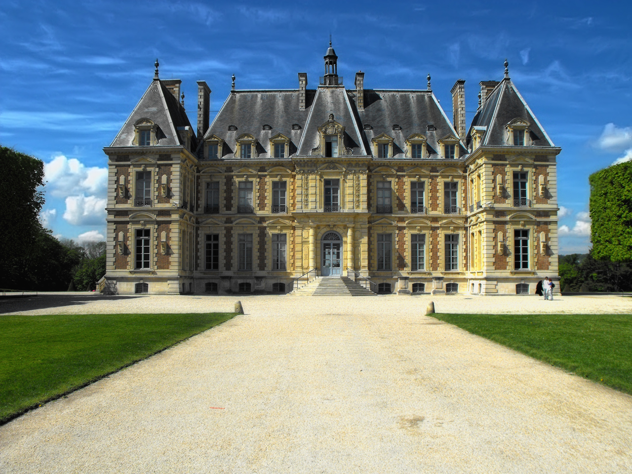 ~ Explore : #365 on 2009-05-24 ~ For a better view, see in LARGE Here is the Castle of Sceaux outside Paris. It is the first time that I saw a castle... or should I say a cottage ? The castle is very nice but tiny, so I think it's a summer cottage for a rich family ;). Anyway, you can visit it for free. You can also walk in the huge Parc de Sceaux... it's really beautiful!! You can almost bring your golf club and practice some shot. I'll post a picture of the court behind the castle soon.